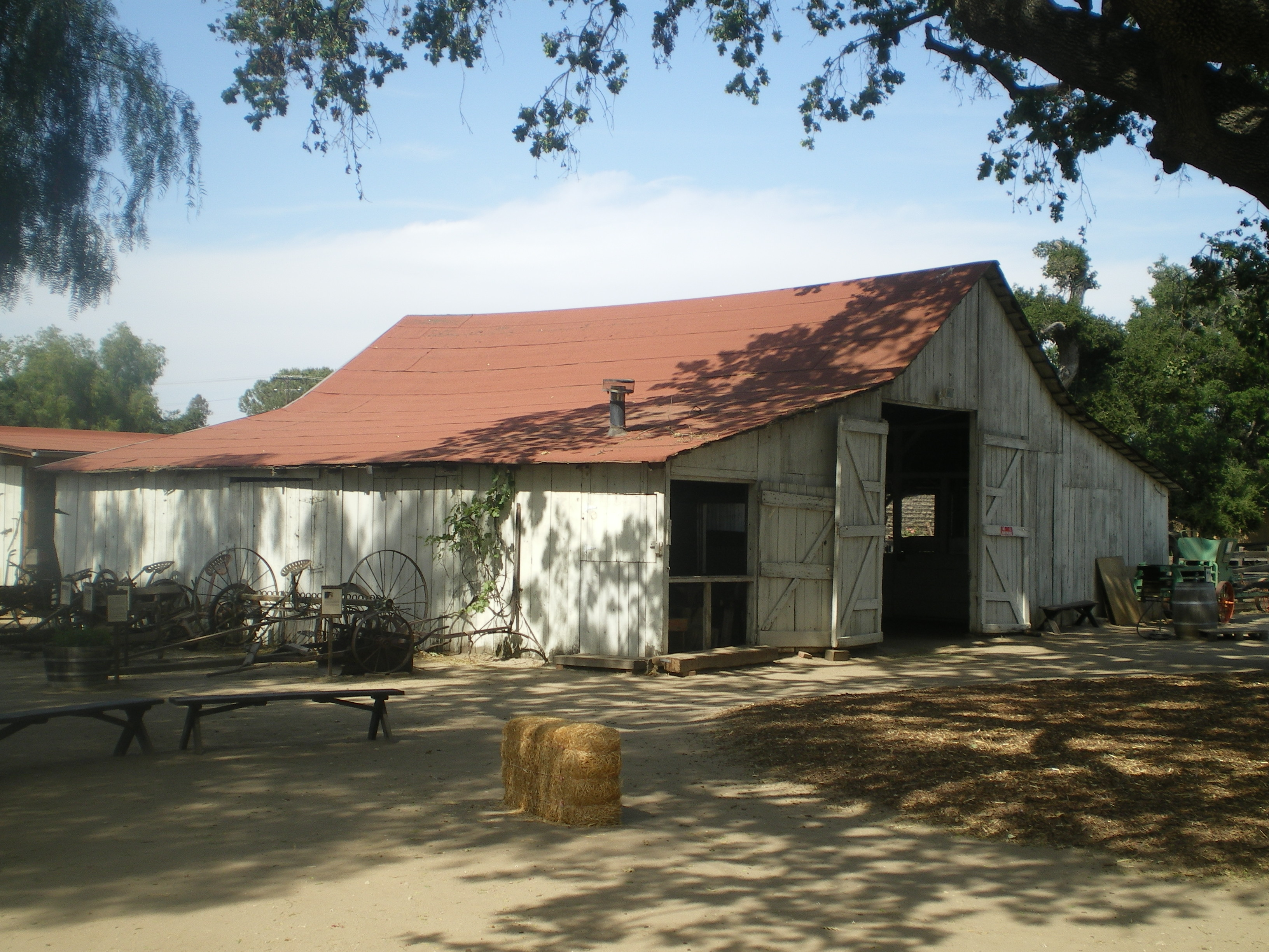 Leonis Adobe Barn, Calabasas, Californnia (2008)